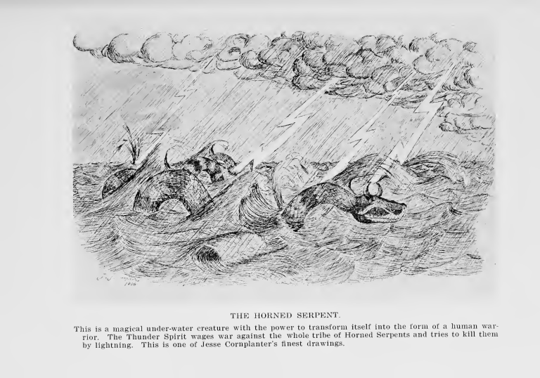 Iroquois myth of He-no attacking the horned serpent Djodi'kwado'